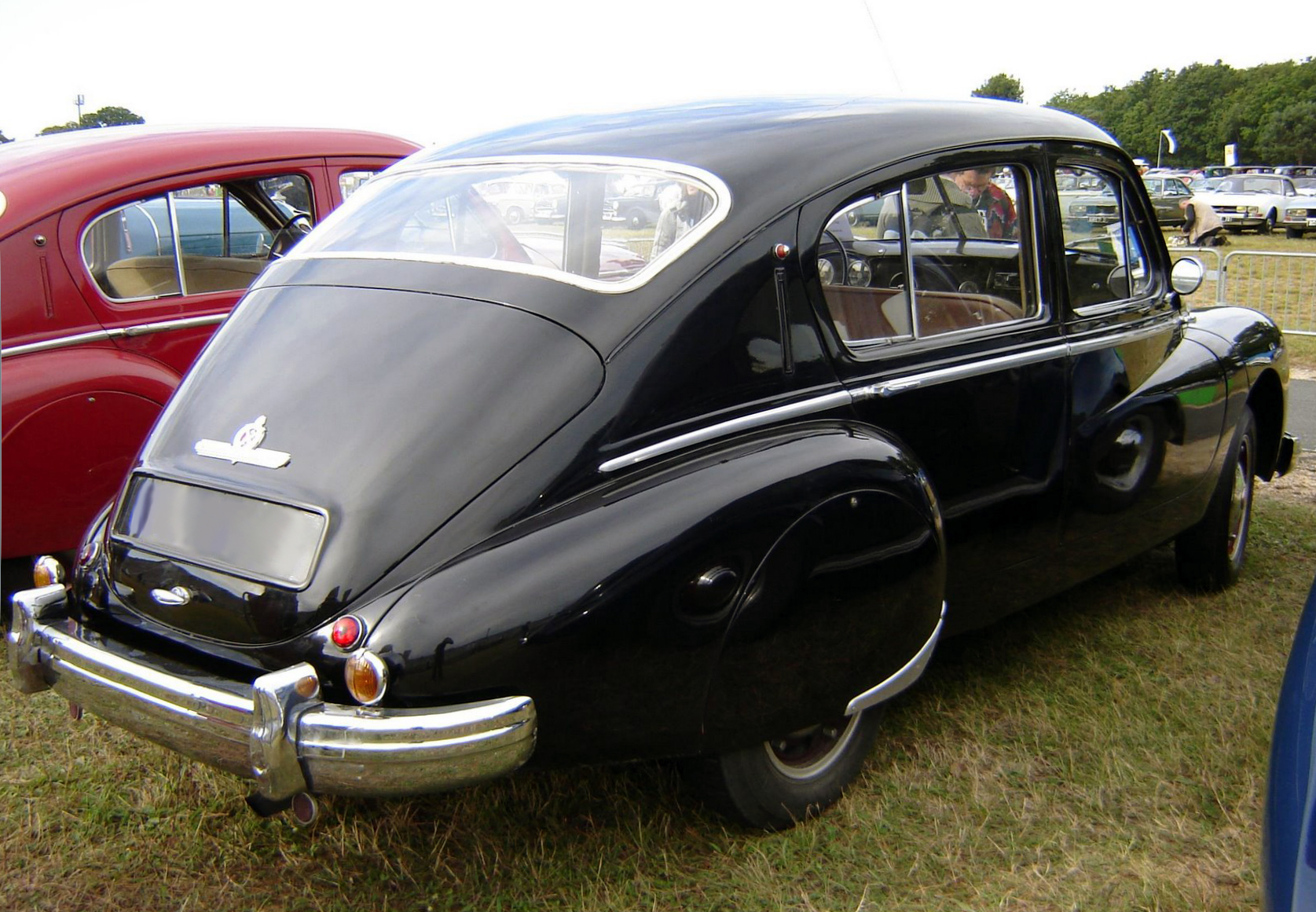 An Hotchkiss Grégoire at Linas-Montlhéry, this particular car used to belong to the Ministère de l'intérieur.